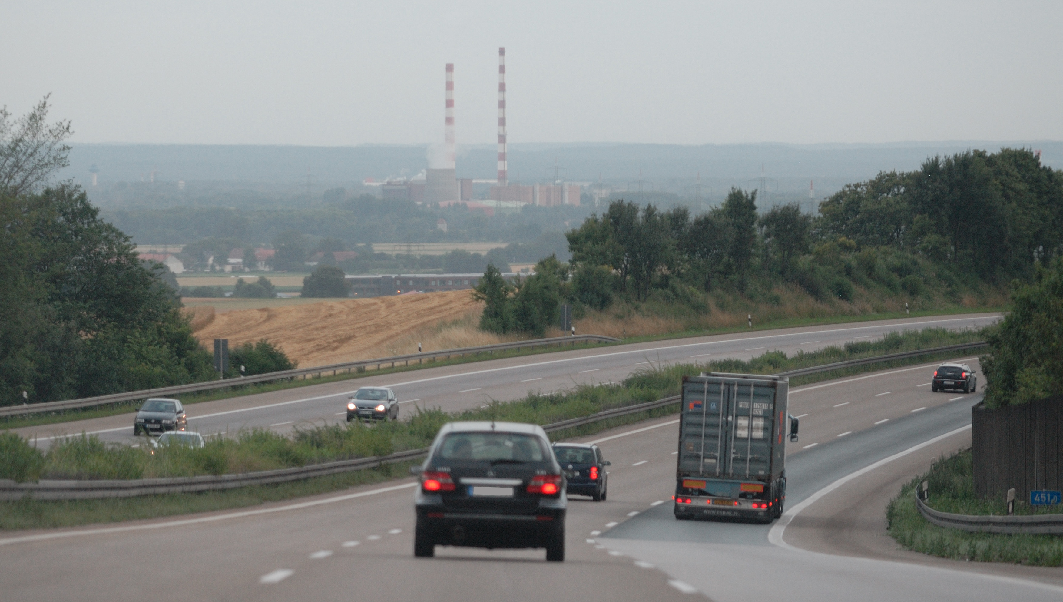 View of Ingolstadt power plant from A 9; road shot.